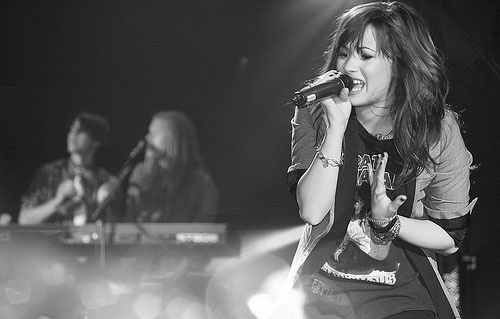 Demi Lovato performing at Hammersmith Apollo with the Jonas Brothers in 2008